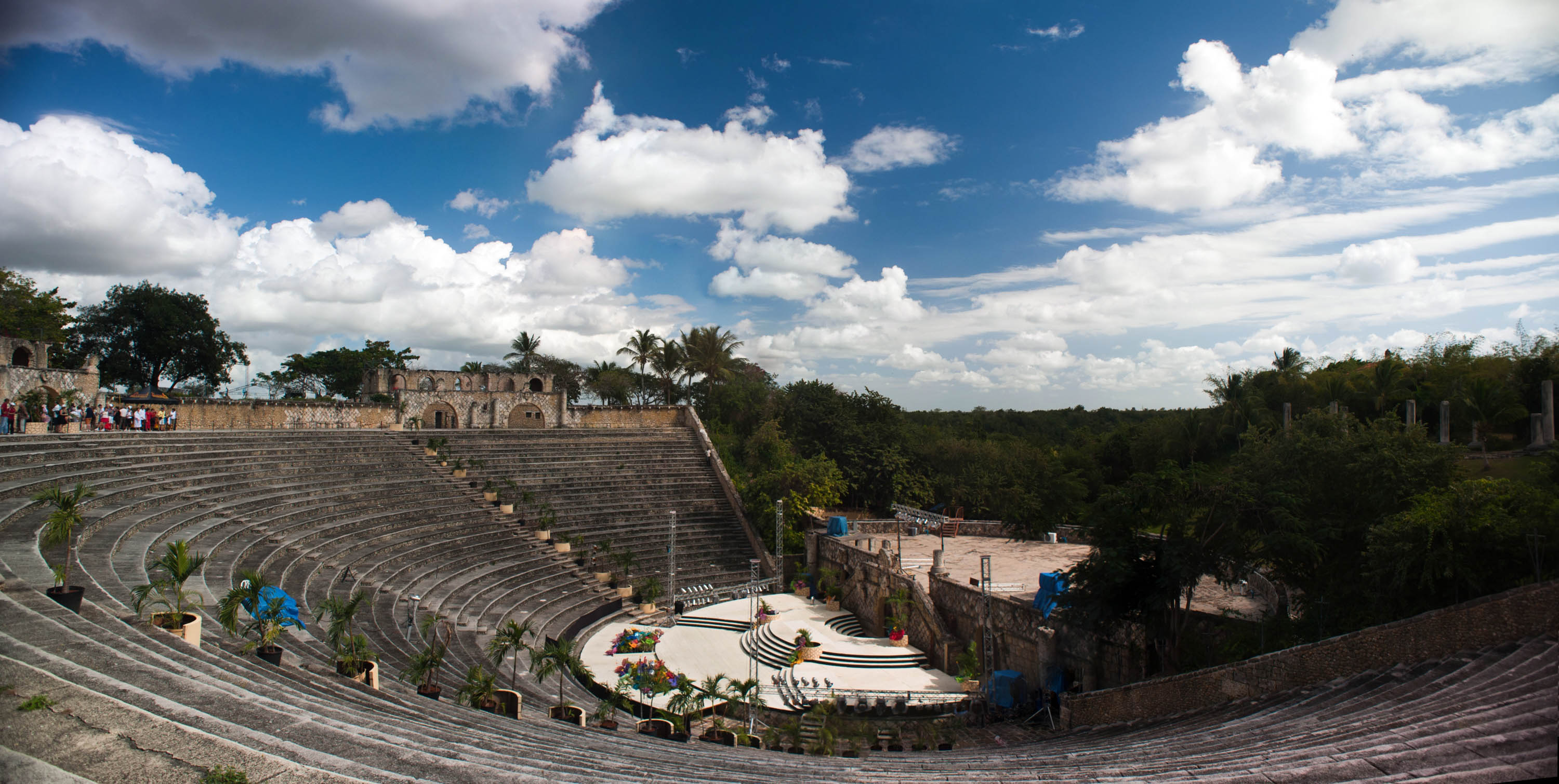 Keywords: Caribbean; catalina island; domenican republic; Amphitheater in Altos de Chav√≥n, La Romana, Dominican Republic.